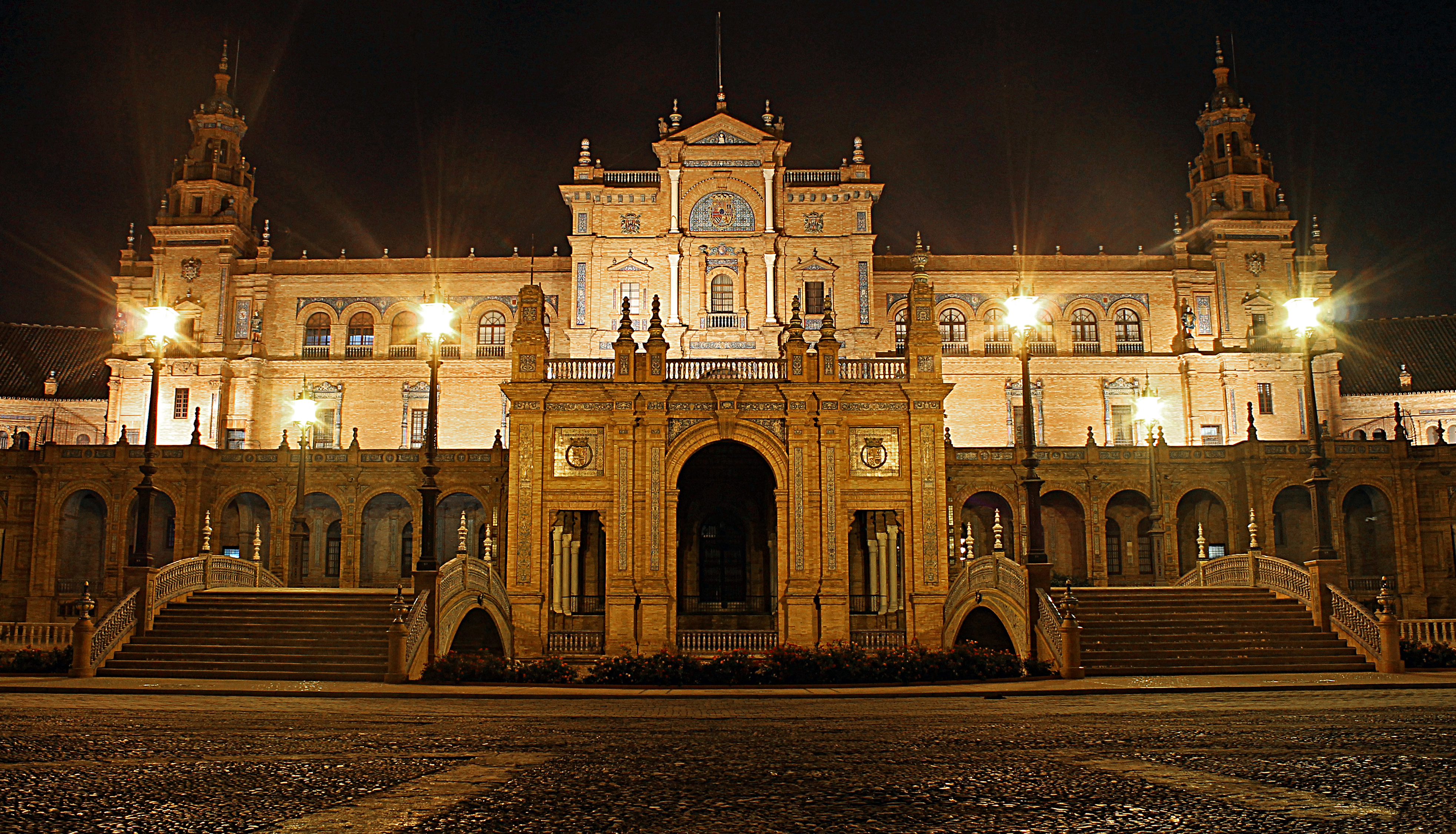 nightview of the magnificient building in Plaza de Espana, Seville